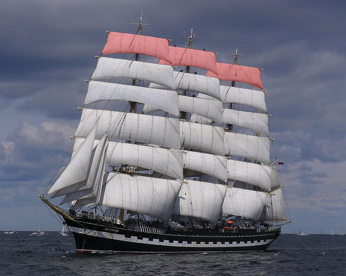 Krusenstern royal sails